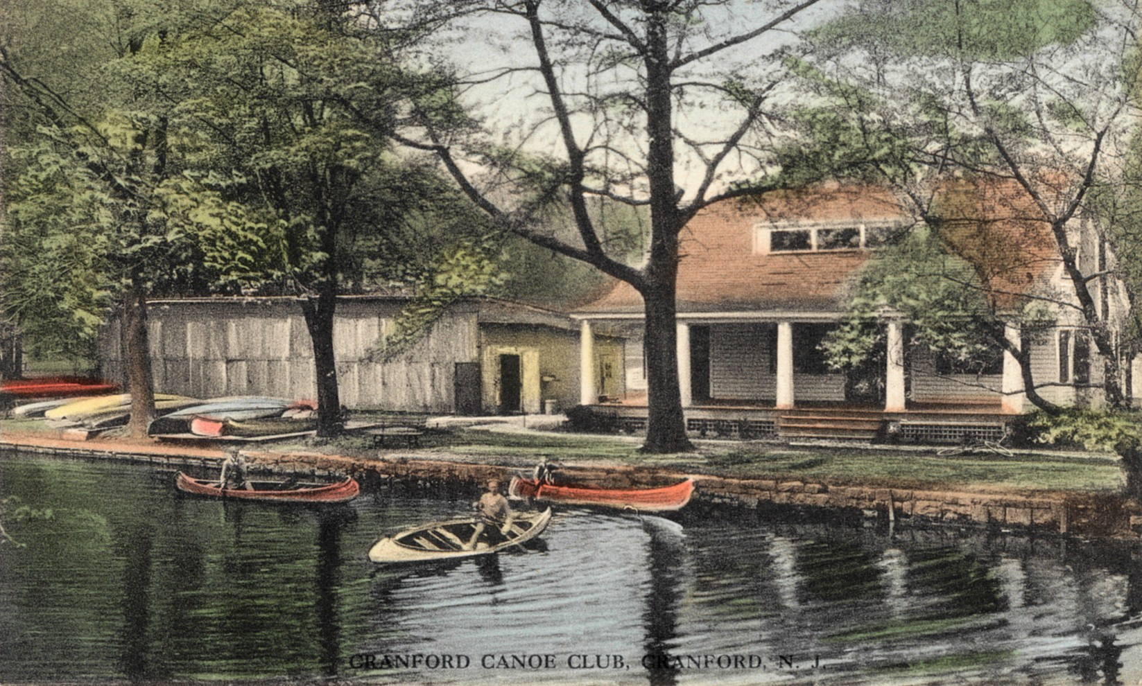 Earliest Cranford Canoe Club in what later became the "Girl Scout House"